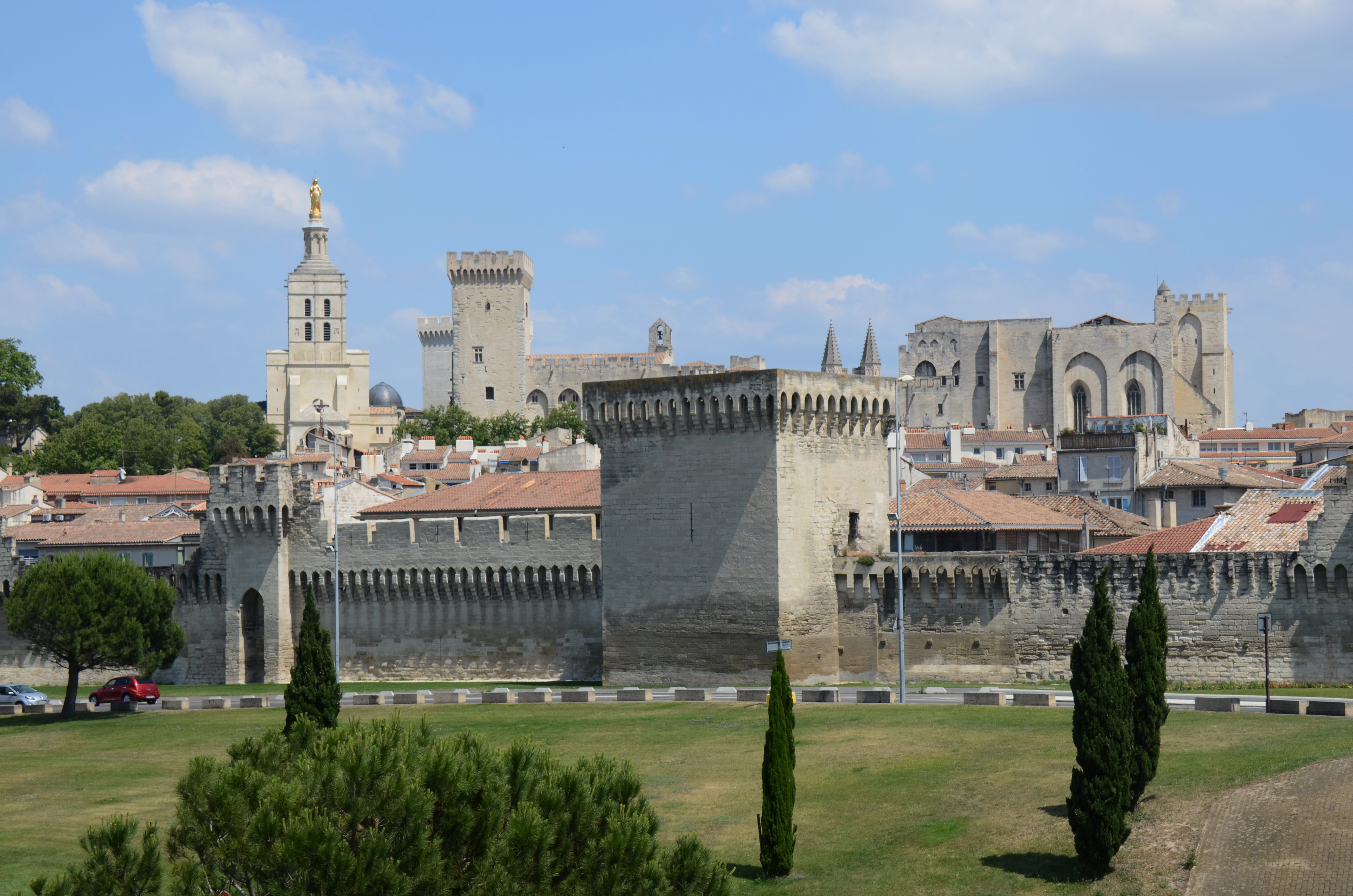 City skyline of Avignon from the West over the Rhoneriver: a magnificent panorama